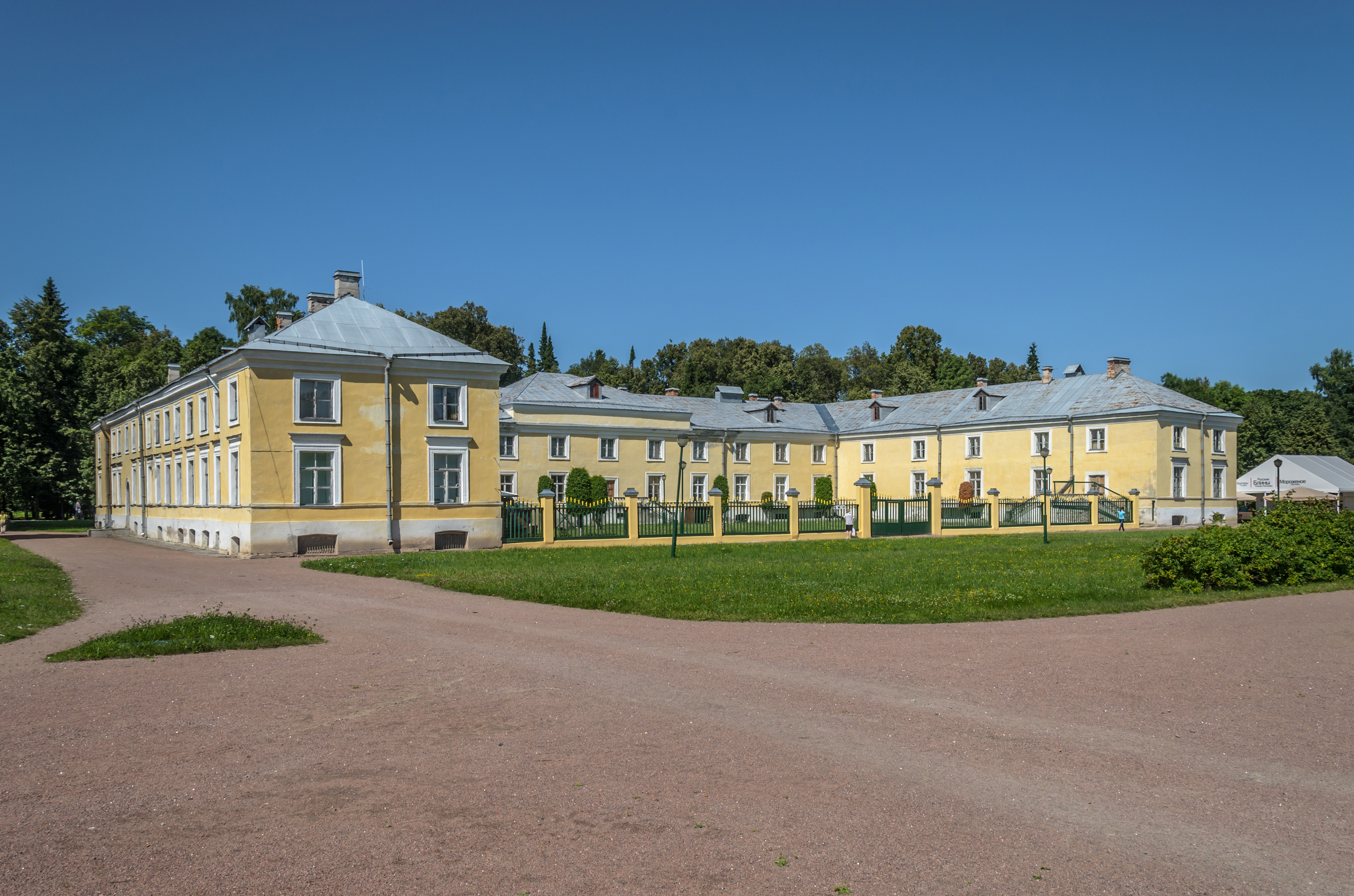 Chevalier Building in Oranienbaum